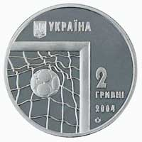 Coin of Ukraine